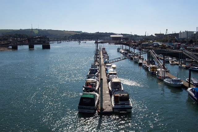 The Cattewater. Looking south along the Cattewater from the Laira Road Bridge.